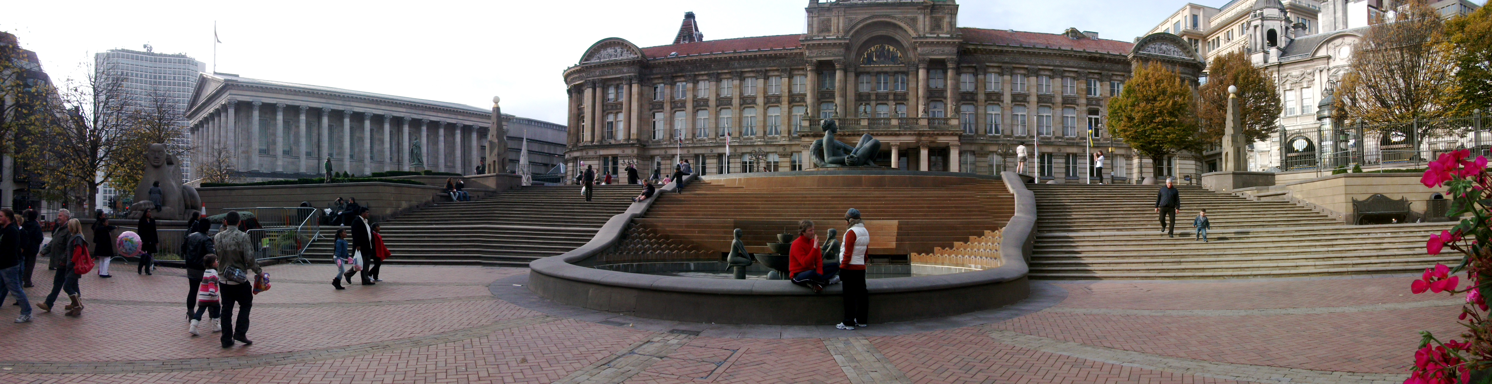 A Panorama of Victoria Square, Birmingham